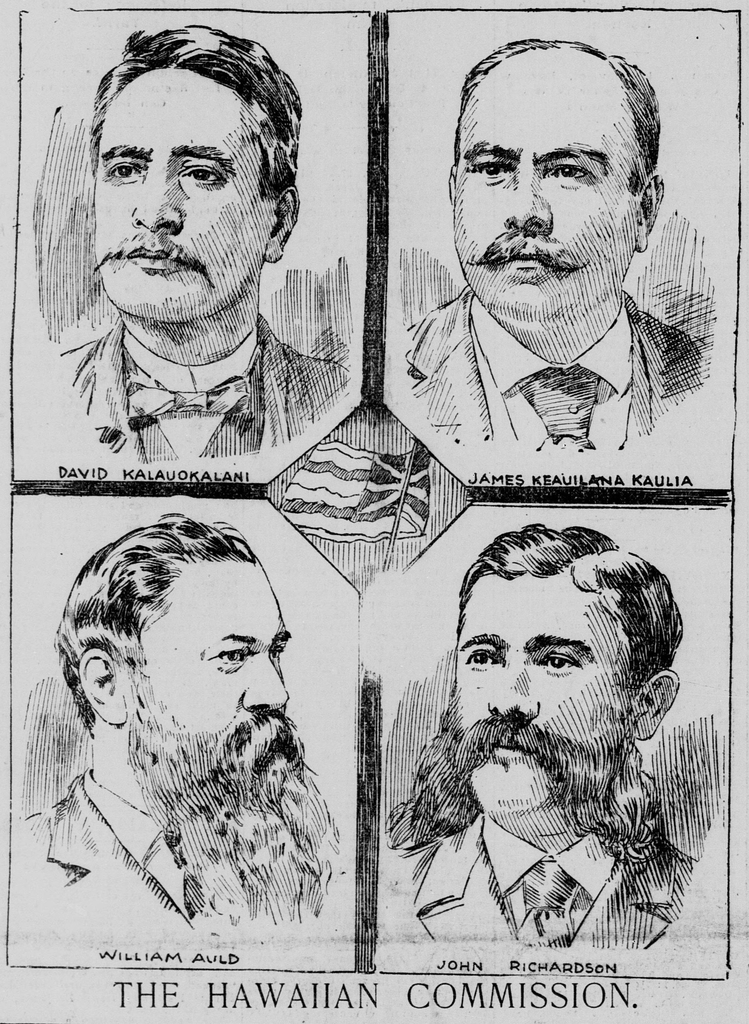 Hawaiian Commission that arrived San Francisco on their way to Washington, D.C. in order to present the signature petition to the United States Senate when it convened in December of 1897. The committee consists of two full-blooded Hawaiians and two half-Hawaiians. The leader of the delegation is Mr. James K. Kaulia, the president of the Hawaiian Patriotic League. There are, besides, Mr. David Kalauokalani, the leader of the second Hawaiian society, which differs only in its opinion on local matters from the Patriotic League; Mr. William Auld, who is a possessor of considerable property on the island of Oahu, and Mr. John Richardson, a lawyer from the island of Maui, whose command of English, as well as his ability as a lawyer, makes him the spokesman of the party.[1]